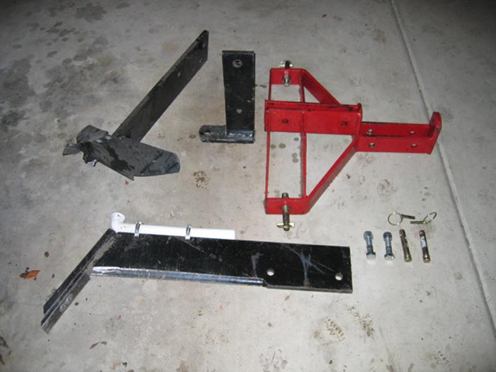 A combination Subsoiler, Middle Buster and Trailer Hitch modular unit. The red frame attaches to the three-point hitch of a tractor. The black blades are held in place by a series of bolts or pins and allow for the frame to be utilized for multiple purposes.